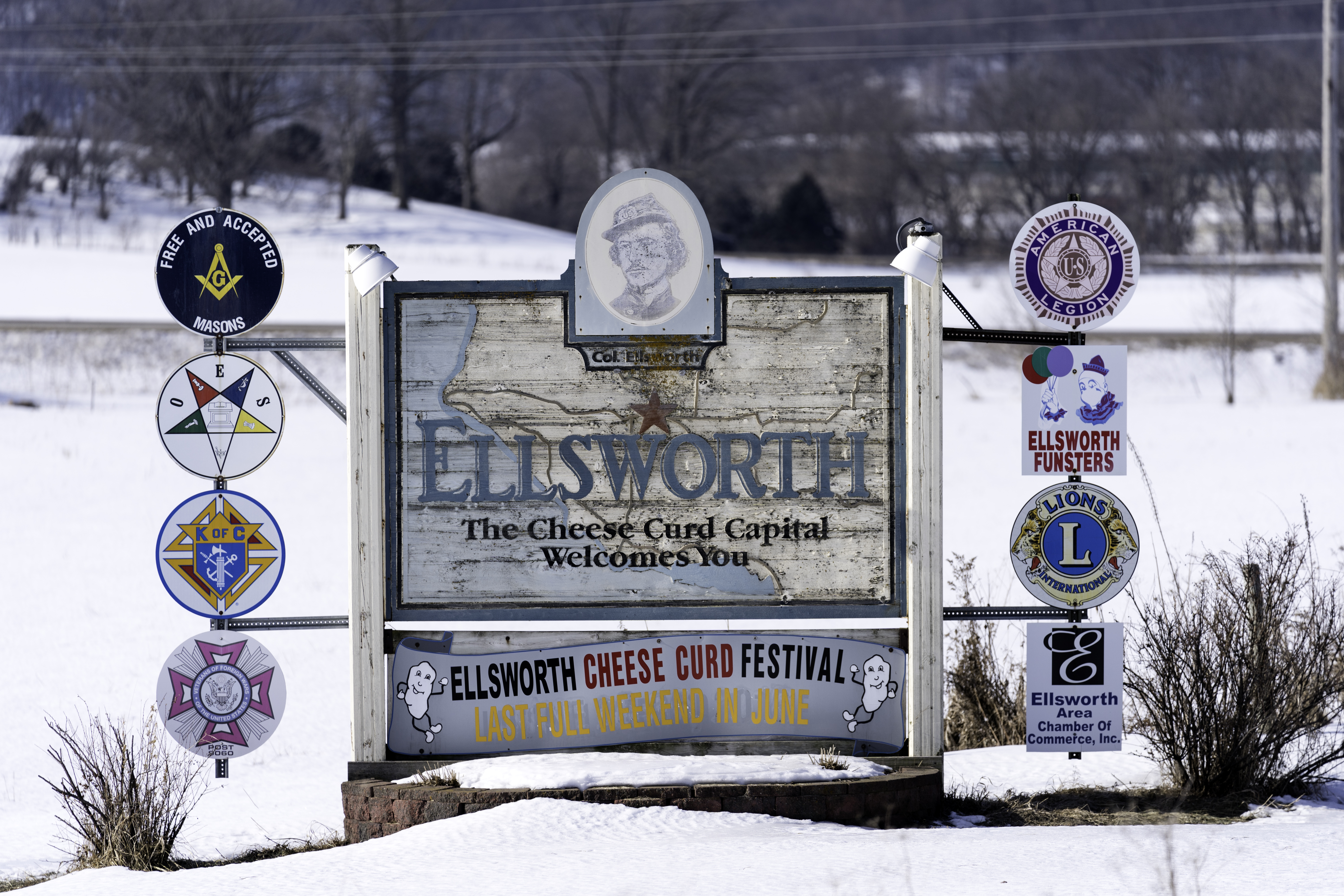 Ellsworth Wisconsin, The Cheese Curd Capital Welcomes You sign